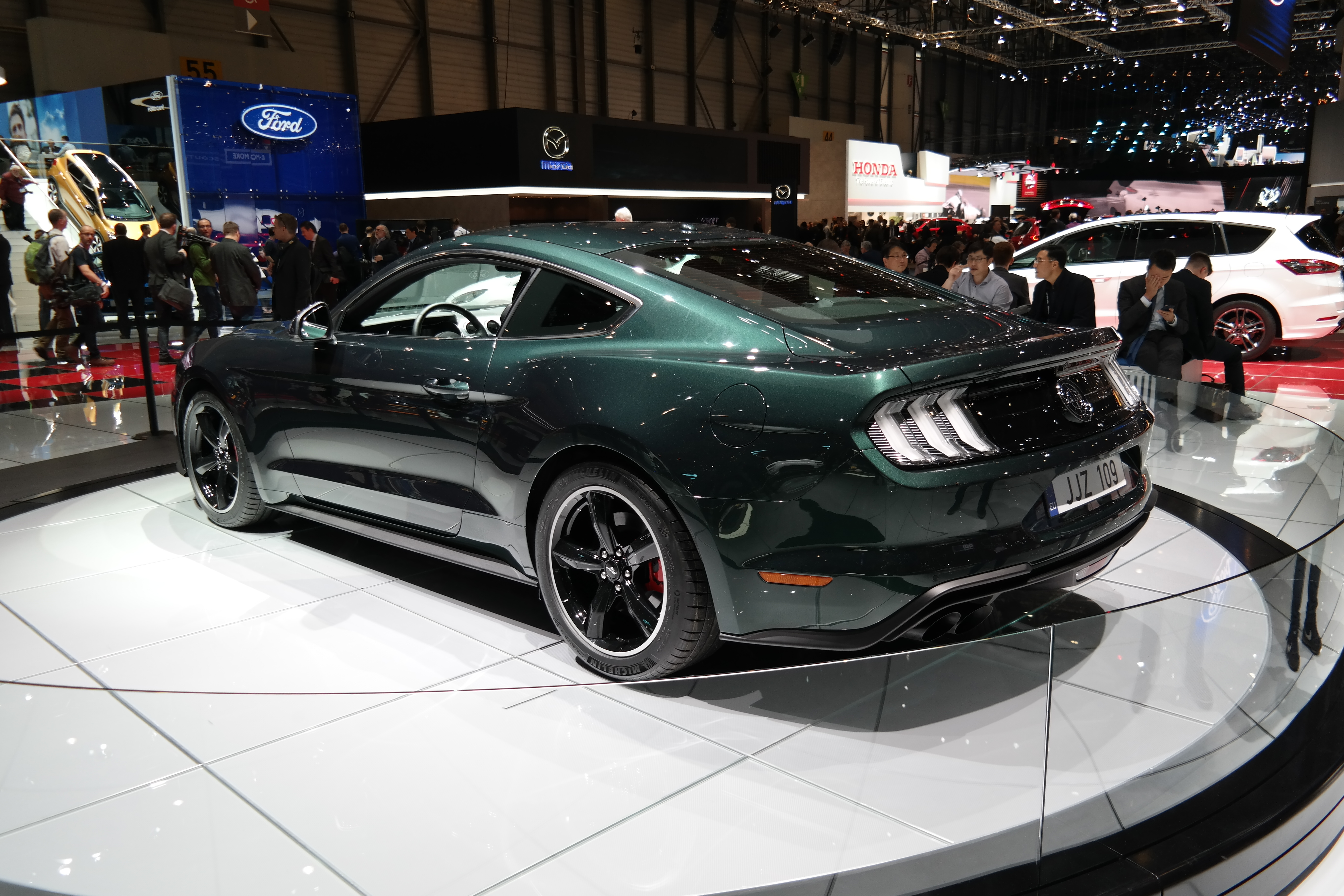 Geneva Motor Show 2018 (photo taken on the first press day)